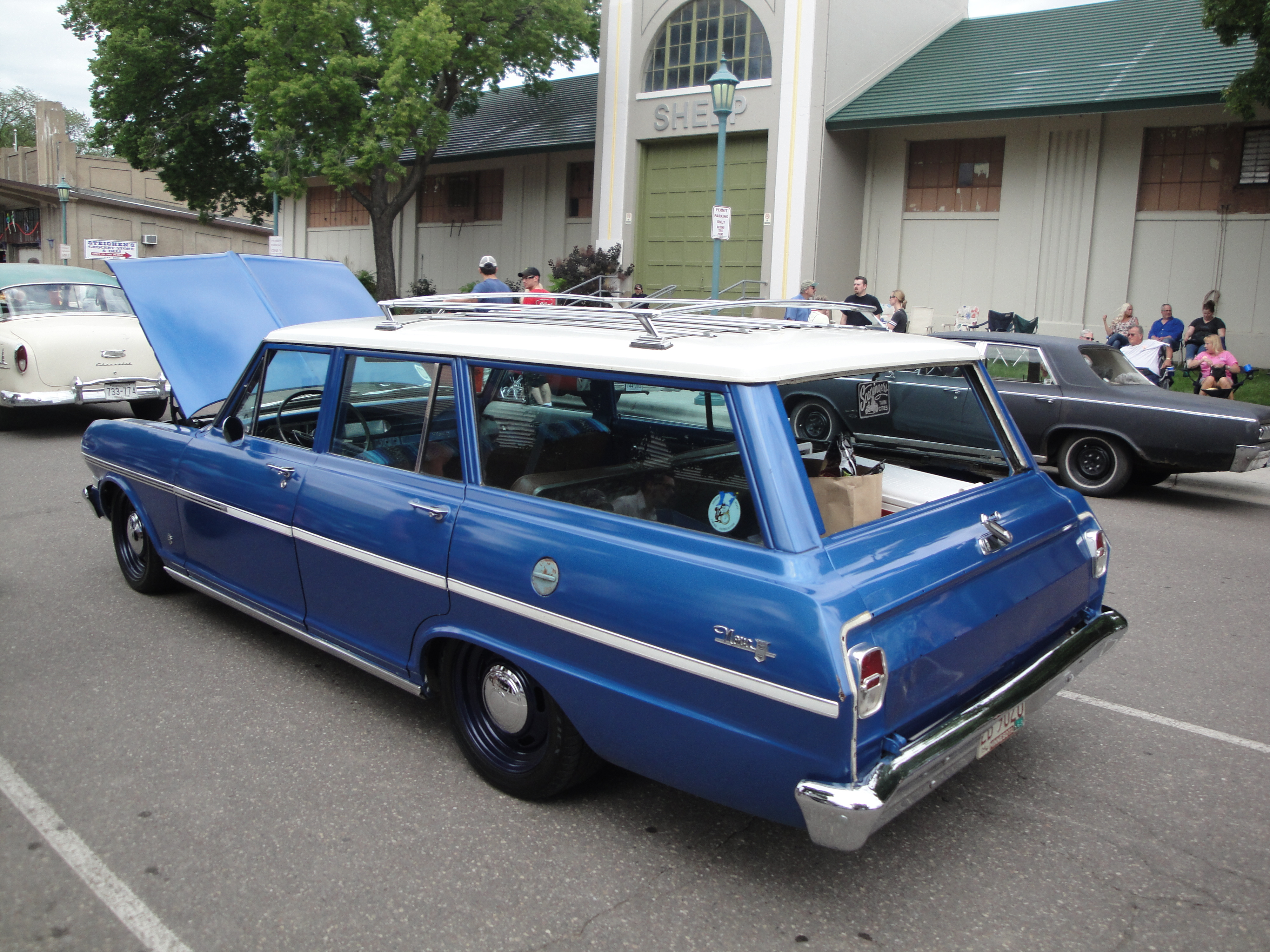 Minnesota Street Rod Association 39th Annual "Back to the Fifties" June 2012 Minnesota State Fairgrounds St. Paul MN